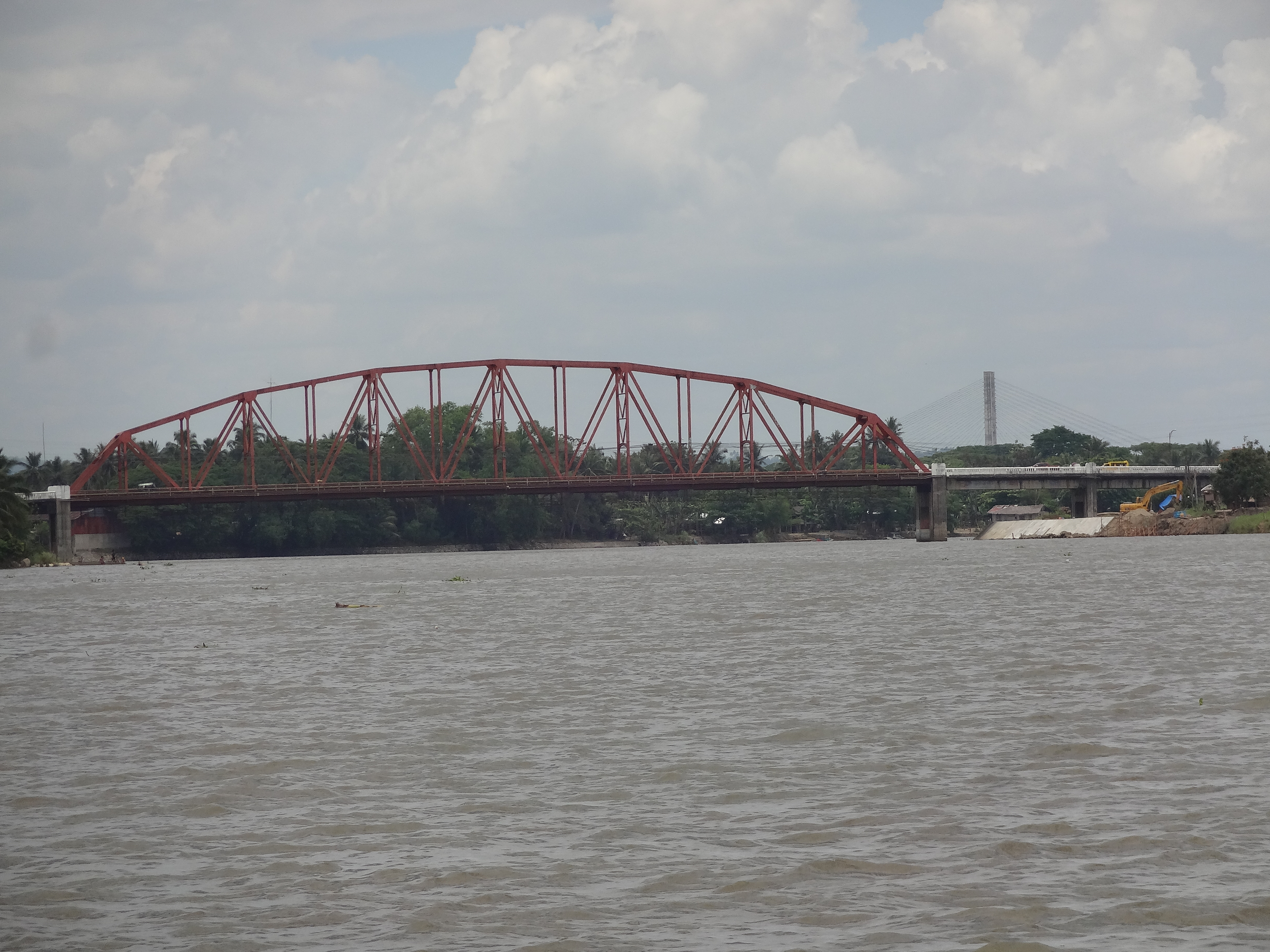 This is my own work. The Agusan River with the Magsaysay and Macapagal Bridge in its Background.